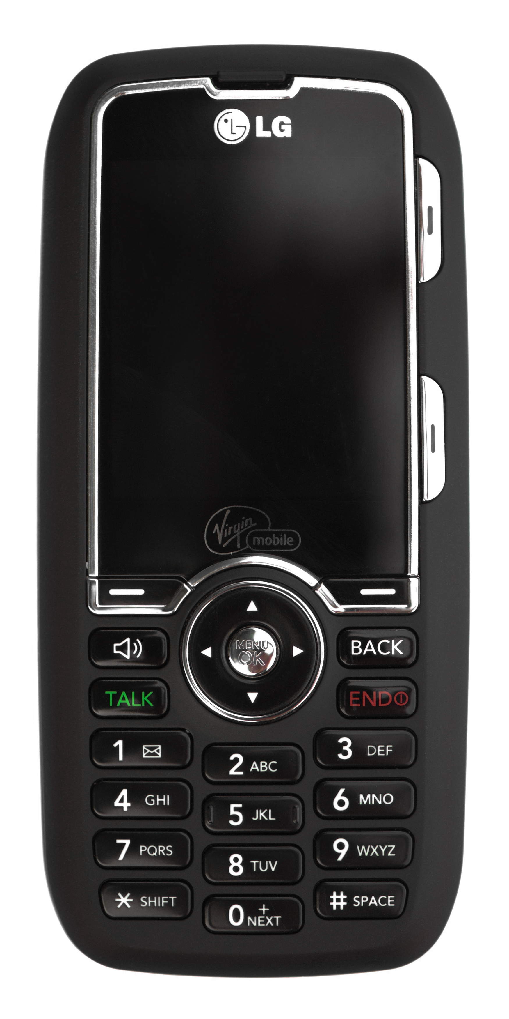 The LG LX260 (also known as the LG Rumour or LG Scoop), in black. Virgin Mobile Canada is the carrier.